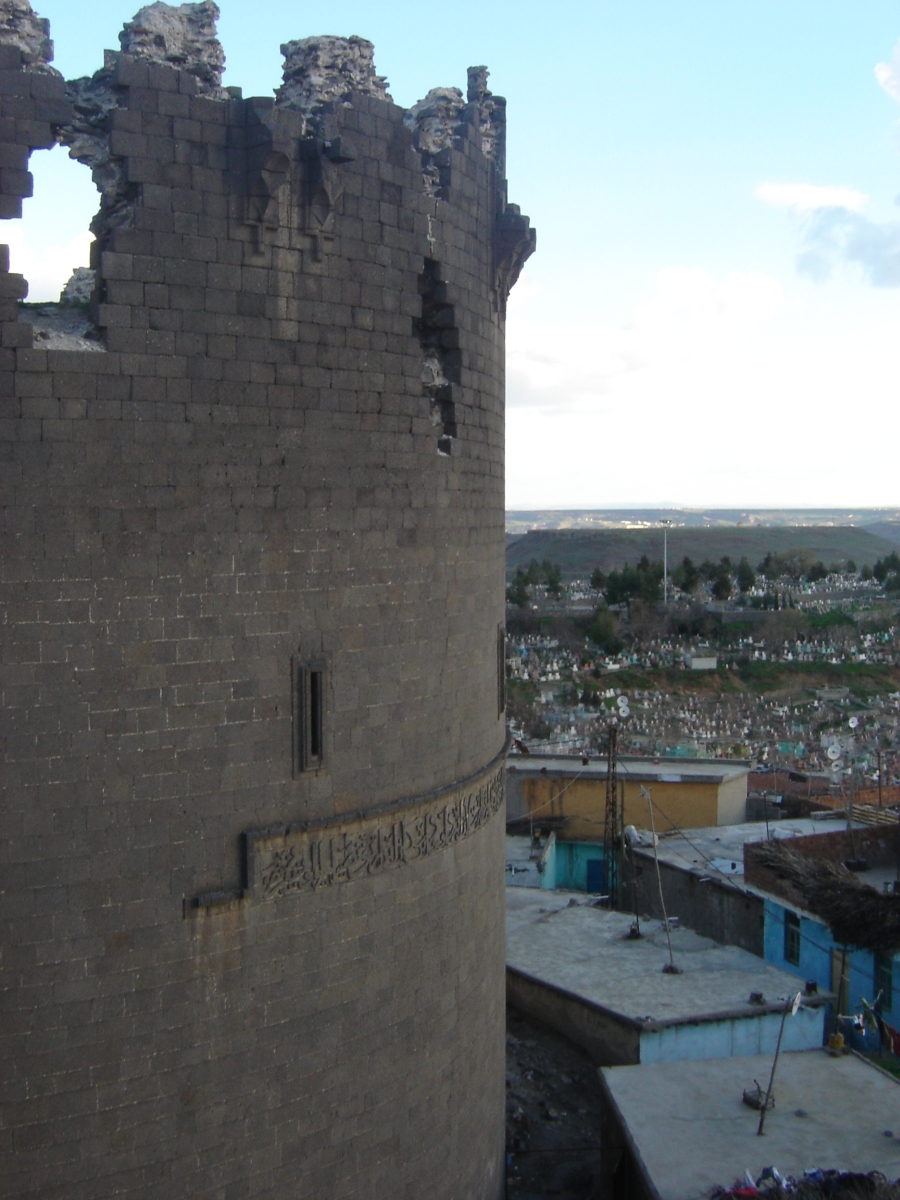 A tower with Arabic inscriptions, part of the ancient city walls of Diyarbakir, Turkey